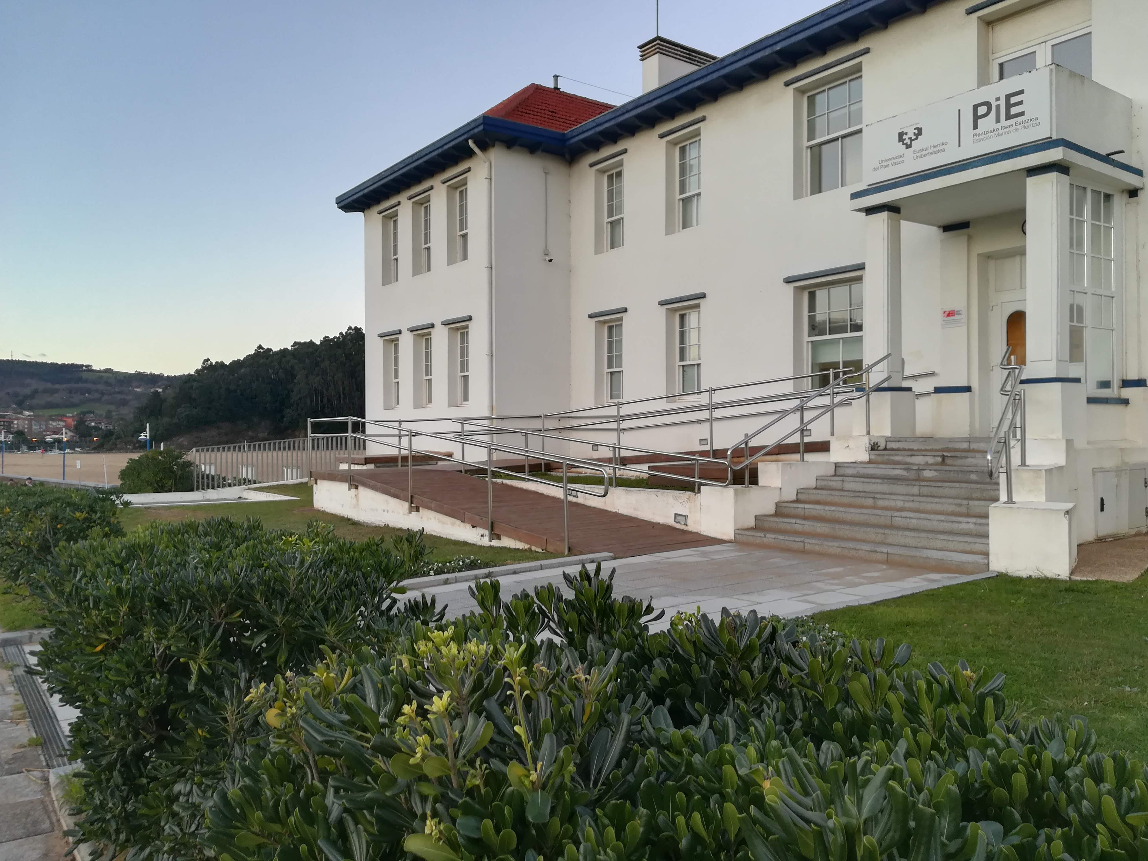 Main entrance of the "Plentzia Marine Station" (PiE-UPV/EHU) -front view